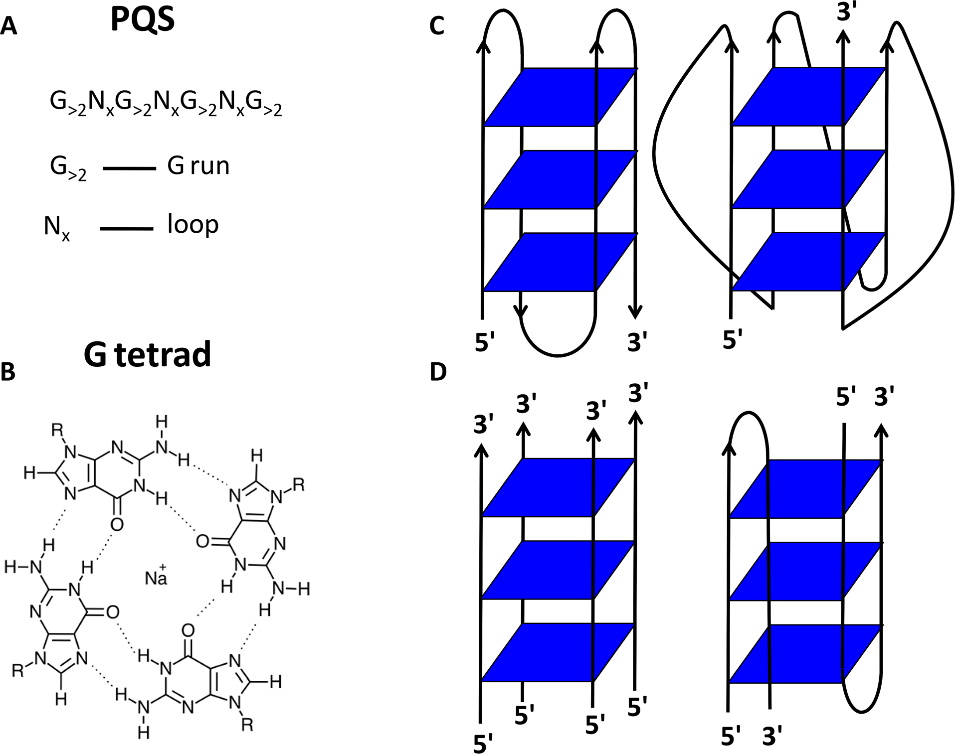 (A) A putative quadruplex sequence (PQS) is a nucleotide sequence predicted to form a G4 structure. A degenerate PQS used to predict the formation of intramolecular G4s is shown here, consisting of four runs of at least three guanines per run, separated by short stretches of other bases (N). (B) The basic unit of the G4 is the G-tetrad. (C) G4 structures display a large variety of different topologies. Topology of intramolecular G4 structures displaying antiparallel (left) and parallel (right) configurations. (D) Topology of intermolecular G4 structures formed by dimerisation of four strands (left) or two strands (right). Harris LM, Merrick CJ (2015) G-Quadruplexes in Pathogens: A Common Route to Virulence Control? PLoS Pathog 11(2): e1004562.